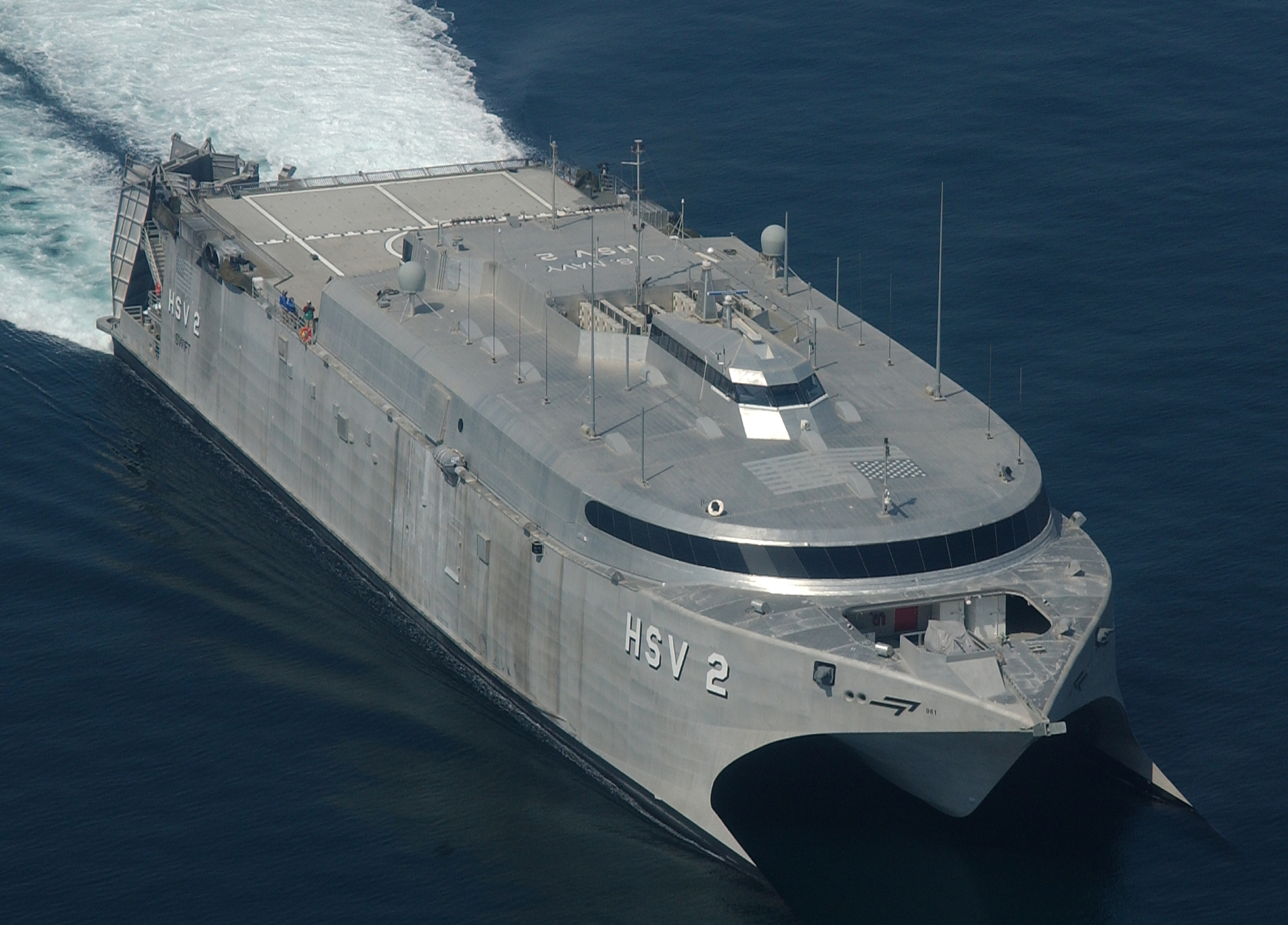 Northern Arabian Gulf (Oct. 10, 2003) -- High Speed Vessel Two (HSV-2) navigates the waters off the coast of Southern Iraq in support of Operation Iraqi Freedom. HSV-2 is one of three similar ships in its class. U.S. Navy photo by Photographer’s Mate 1st Class Ted Banks. (RELEASED)